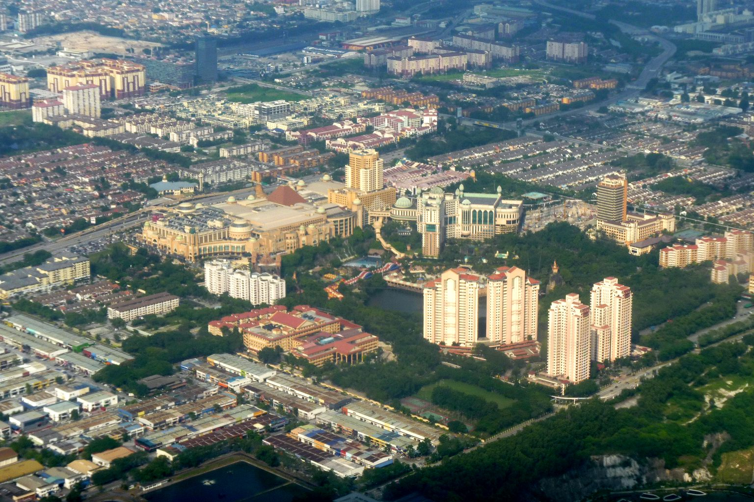 Aerial view of Bandar Sunway in Klang Valley in Feb 2011.